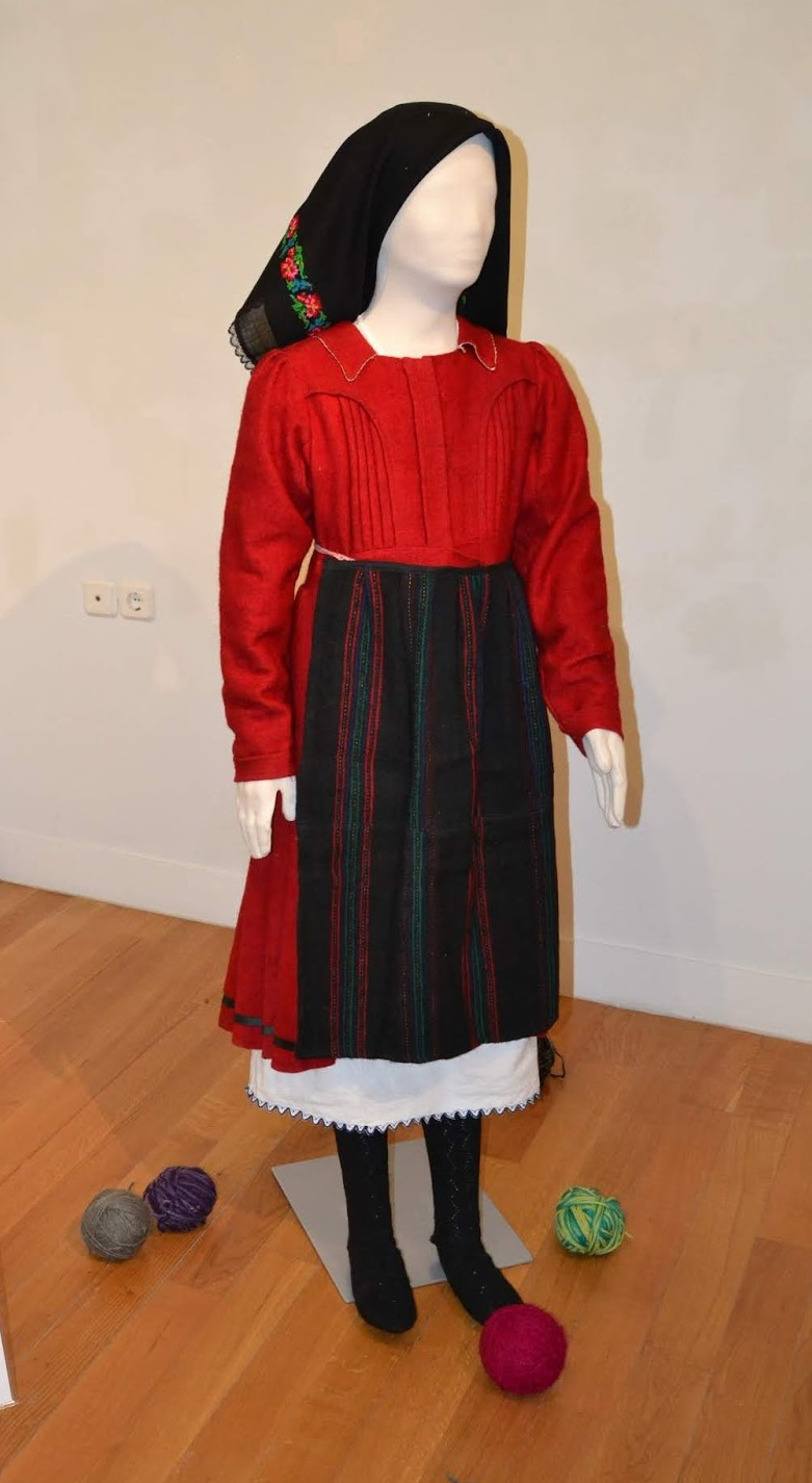 Female dress from Ammohori, Florina (Moshtenski Type)